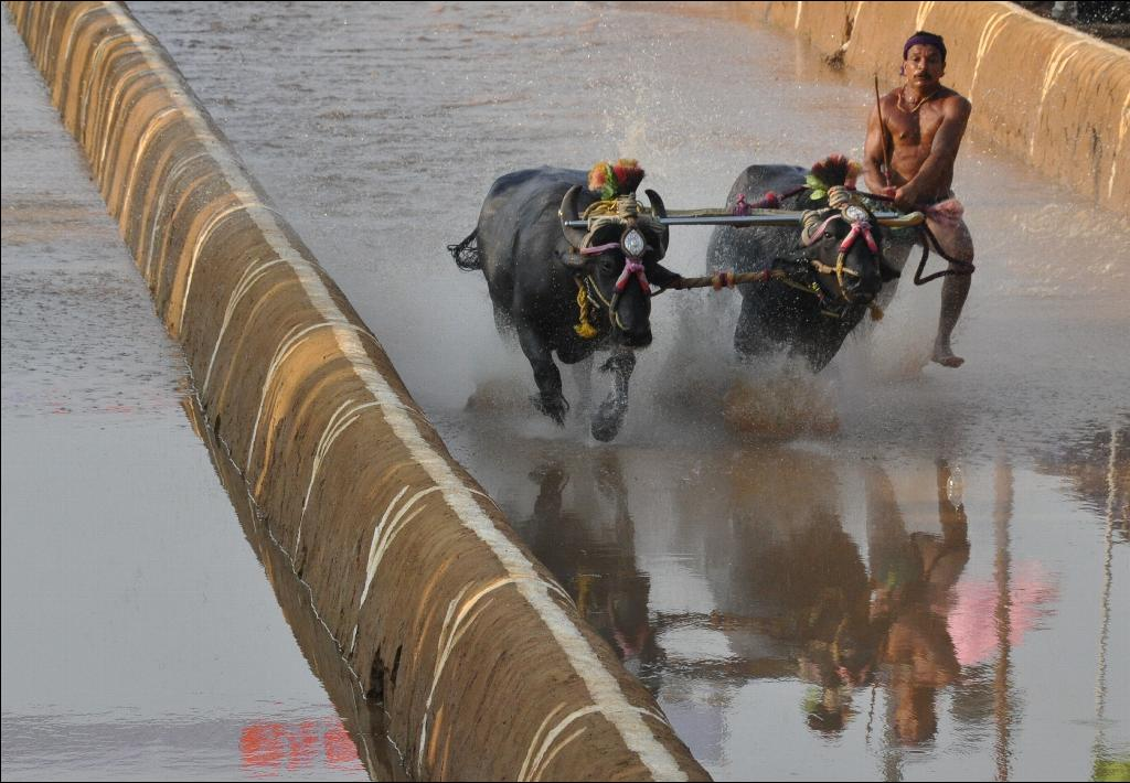 This is a traditional buffalo race in the western part of Karnataka, mainly Tulunadu or the Tulu spoken regions.